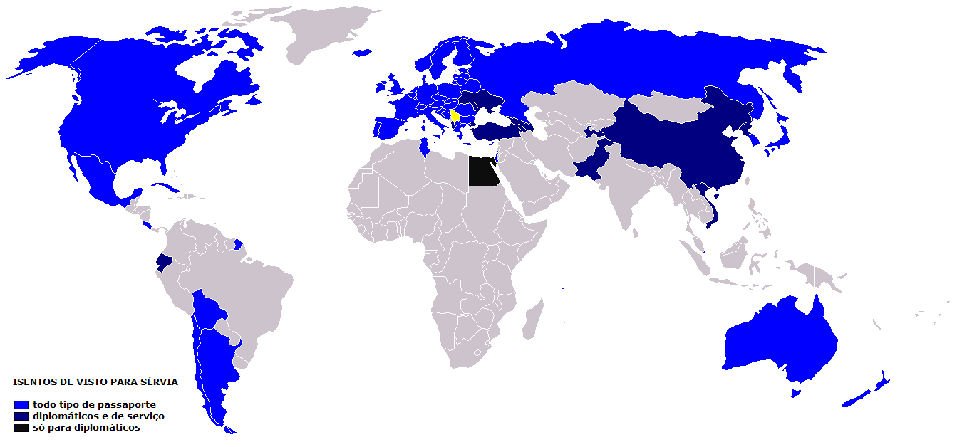 World map showing nations to which citizens Serbia does not require a visa